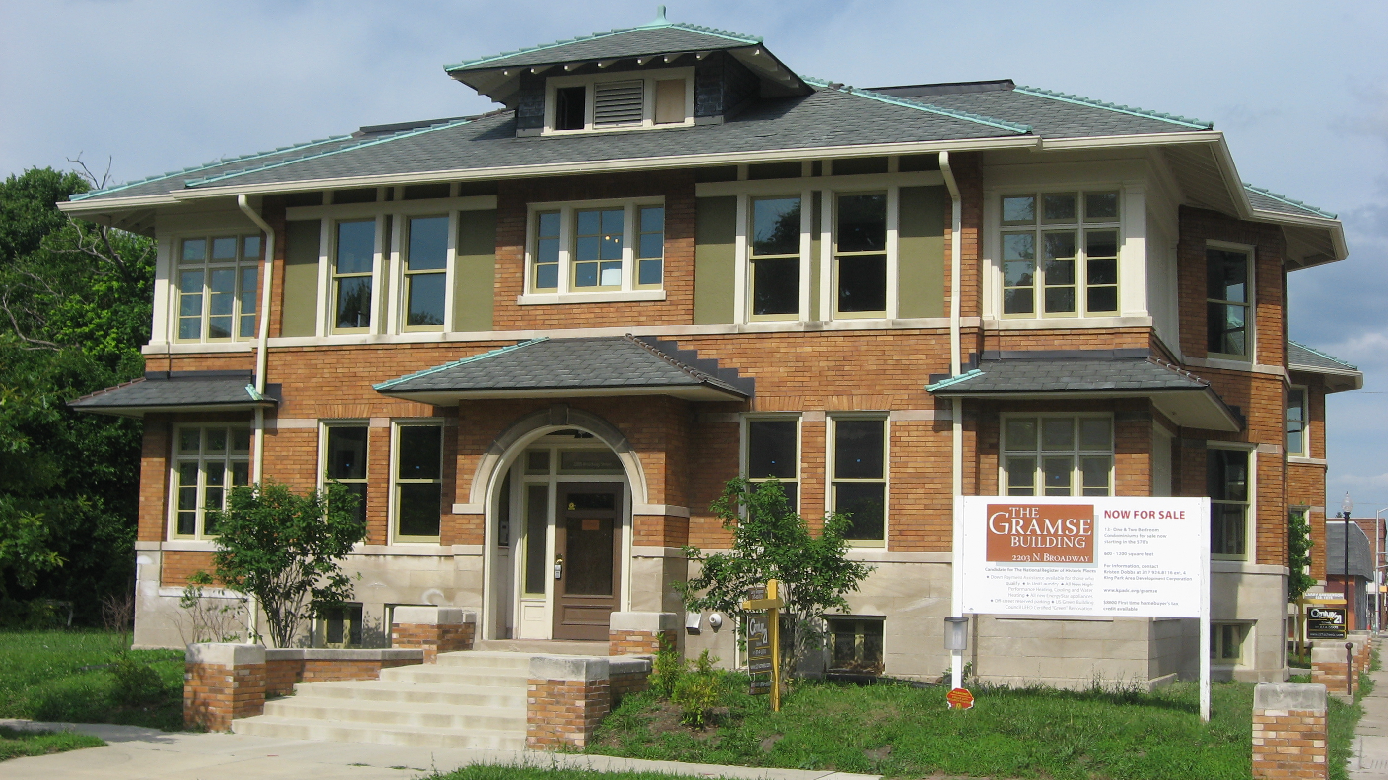 Front of The Gramse, located at 2203 Broadway Street in Indianapolis, Indiana, United States. Built in 1915, it is listed on the National Register of Historic Places.